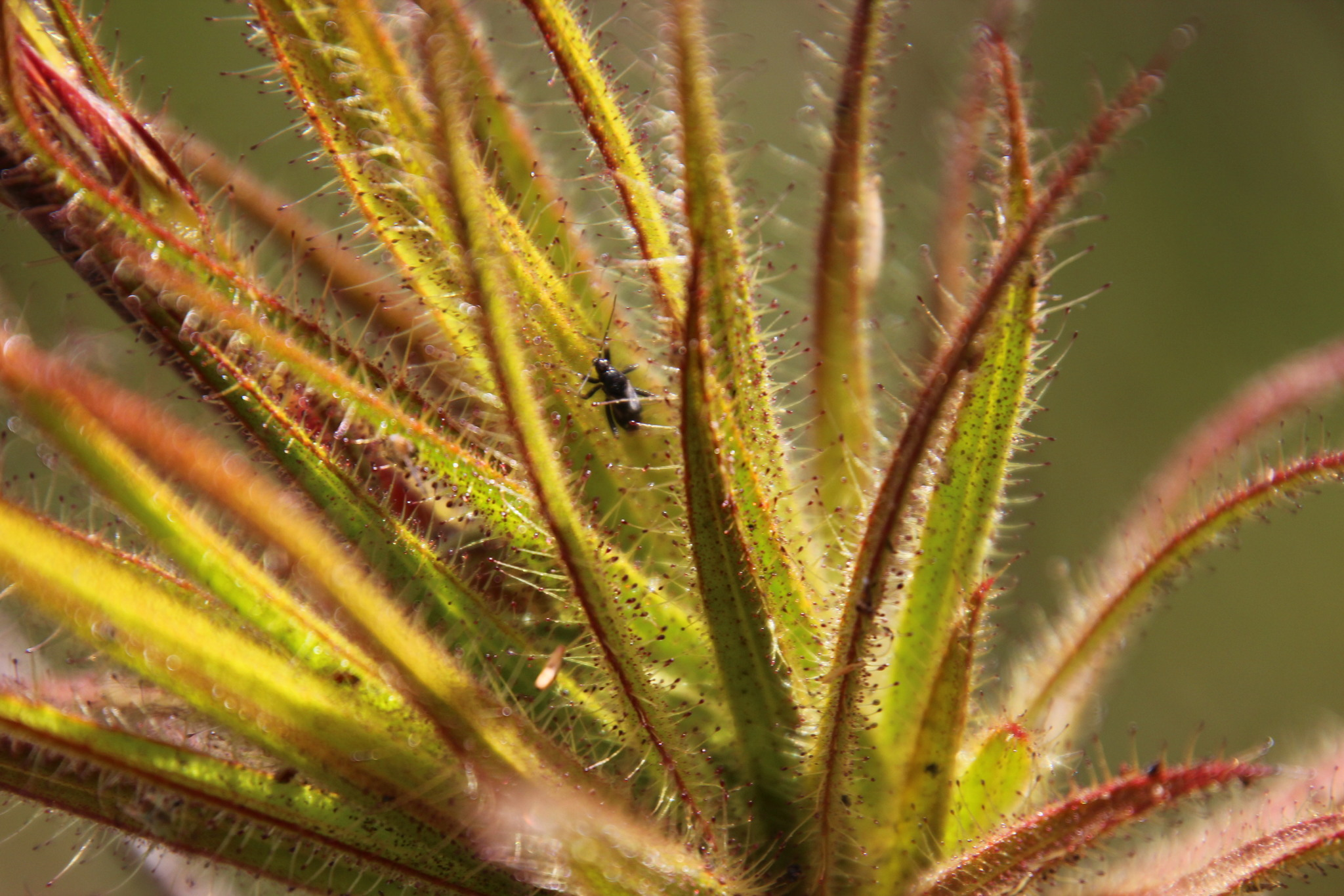 Fly bush or gorgons dewstick, Roridula gorgonias, photographed by Tony Rebelo, on 11 October 2017, at Steep south facing slopes of Paardeberg below the Lookout and above Fairy Glen, Caledon County, Western Cape province of South Africa